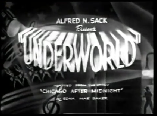 Black and white title screen for the 1937 film Underworld, directed by Oscar Micheaux.